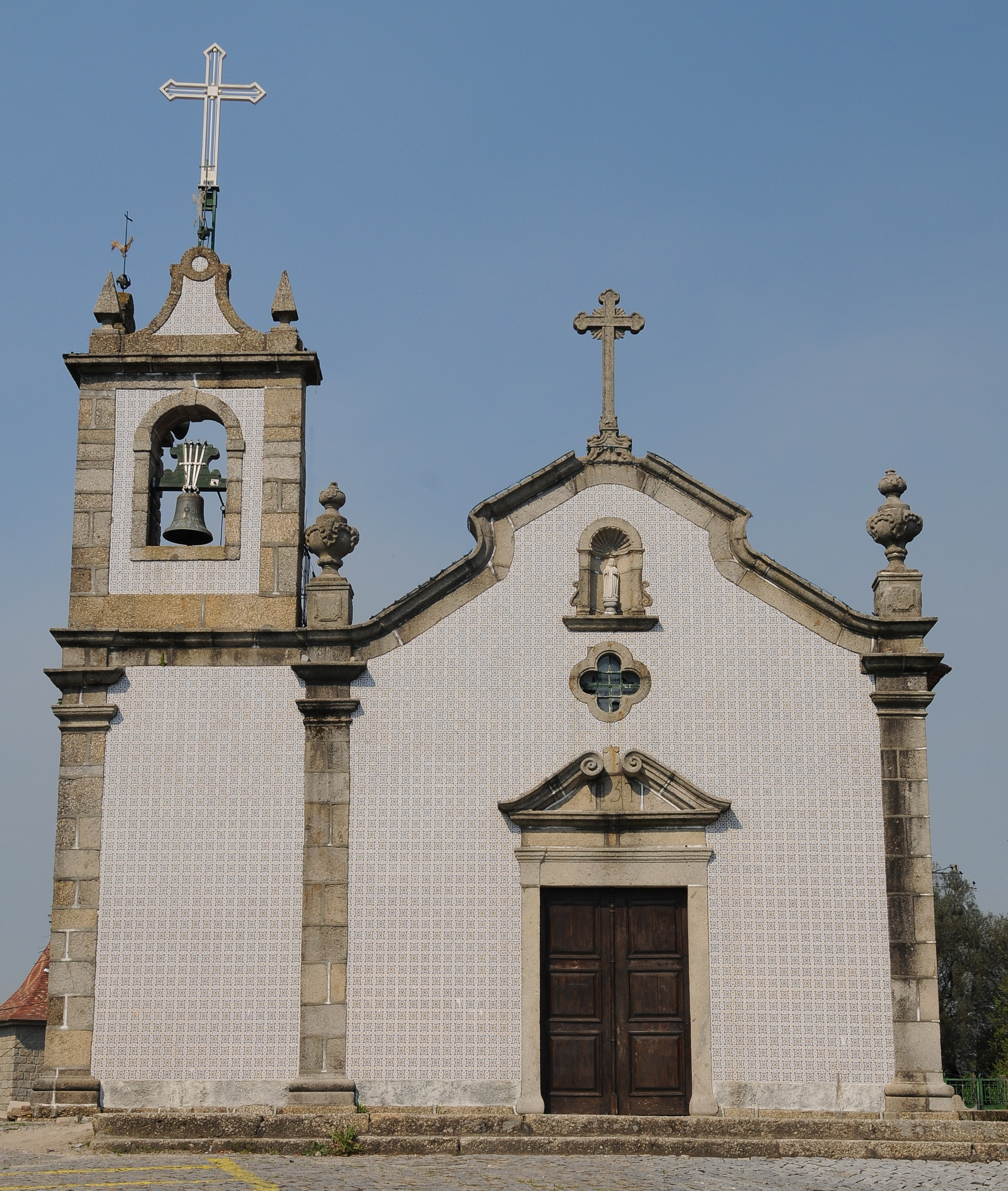 Sezures Church, in Vila Nova de Famalicao, Portugal